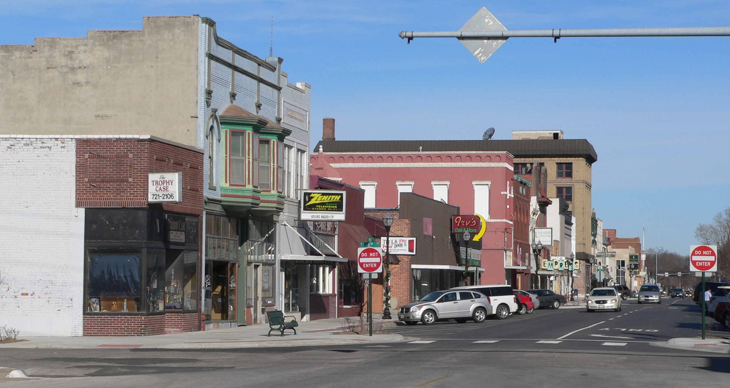 Downtown Fremont, Nebraska: looking north along west side of Main Street from intersection with 3rd Street.